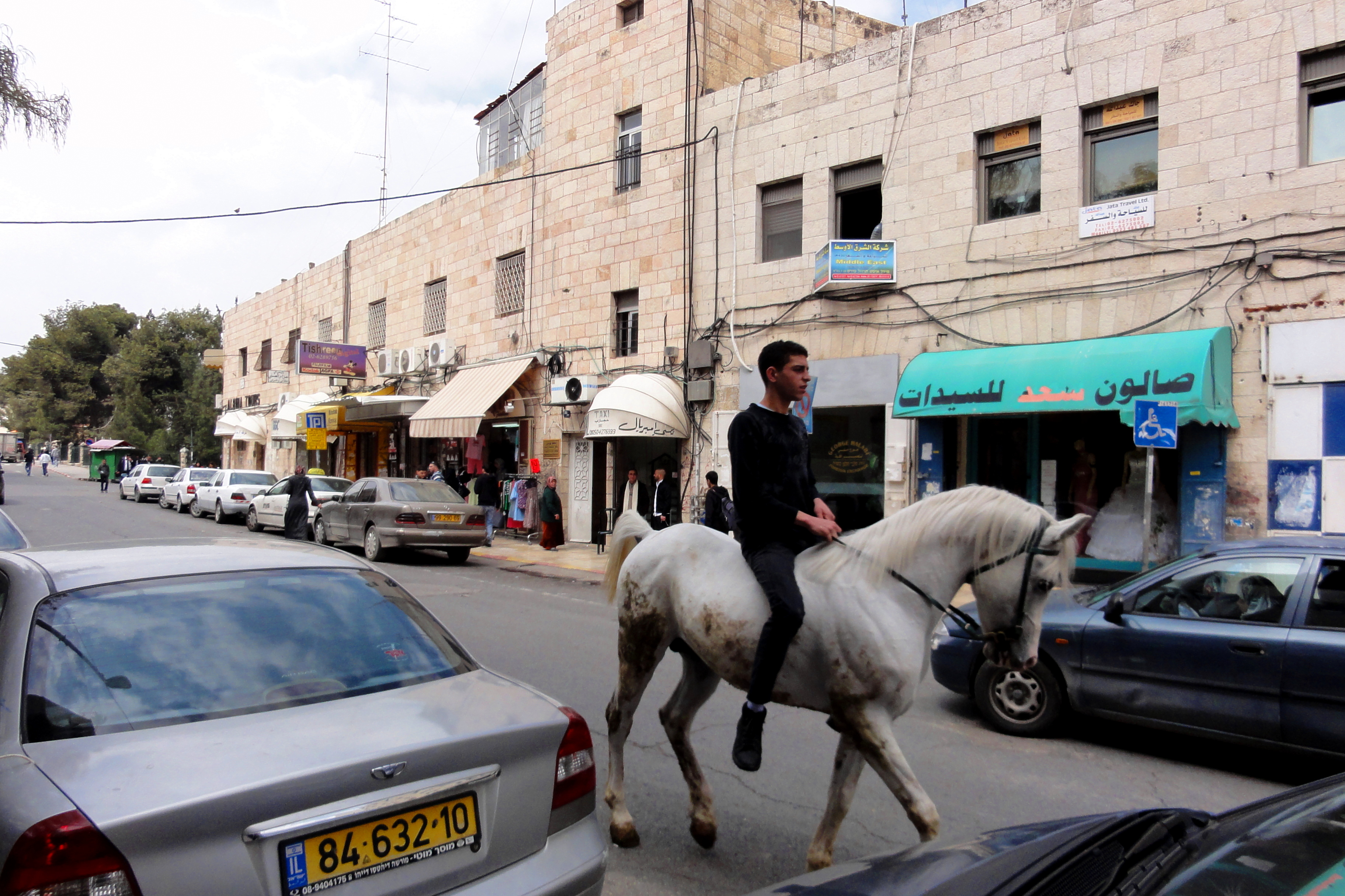 Saladin street, horse riding DSC04002